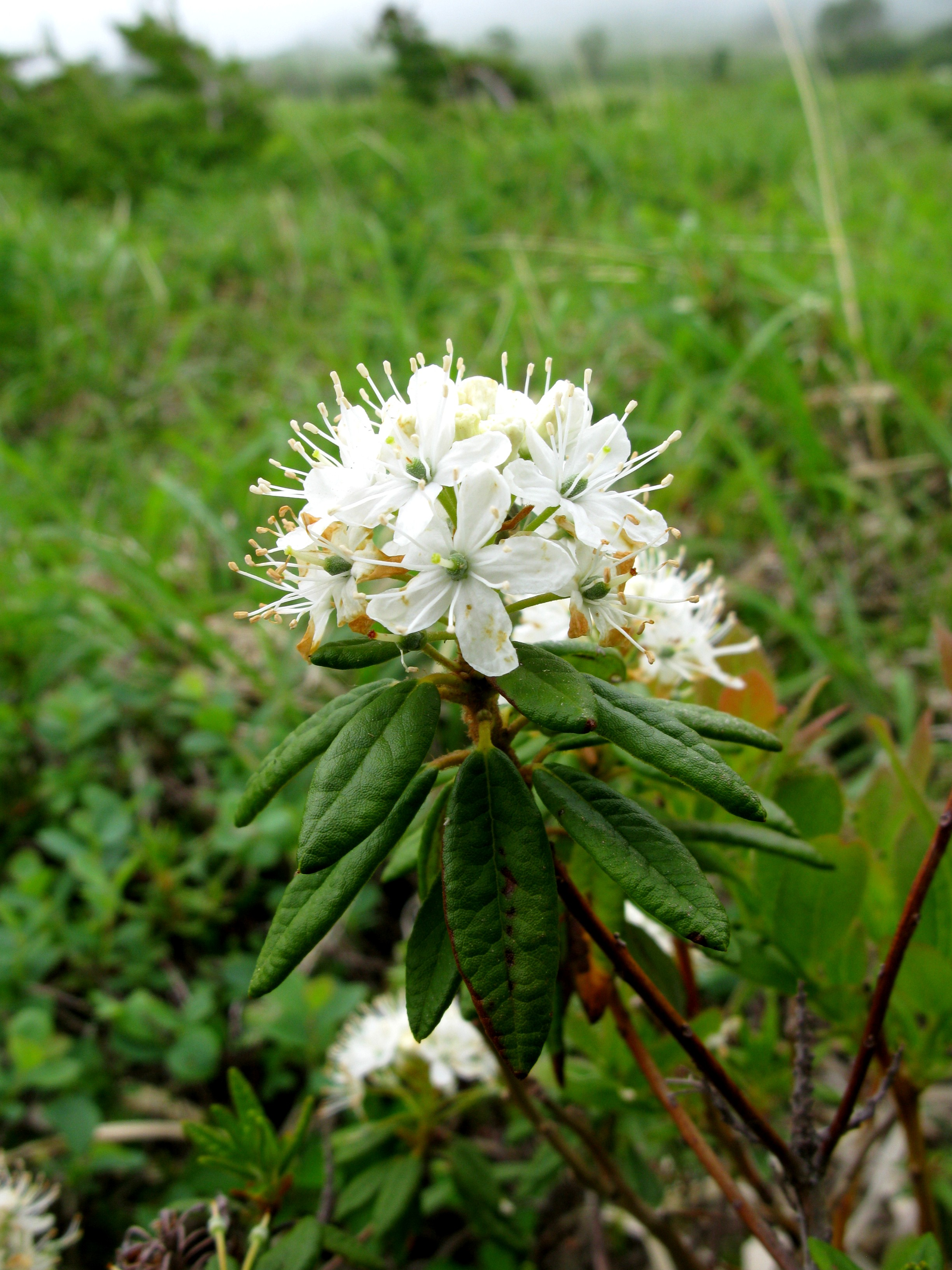 Ledum palustre subsp. diversipilosum var. nipponicum, Mt. Higashi-Azumayama, Fukushima pref., Japan